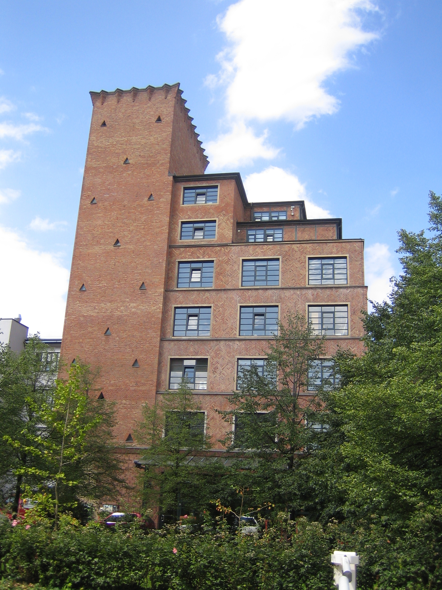 Mousonturm Frankfurt am Main